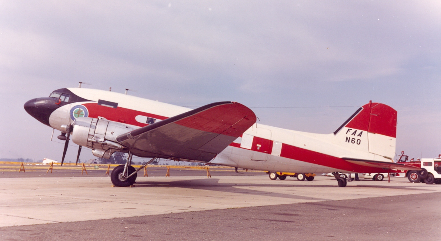 Merced, California, June 1965.